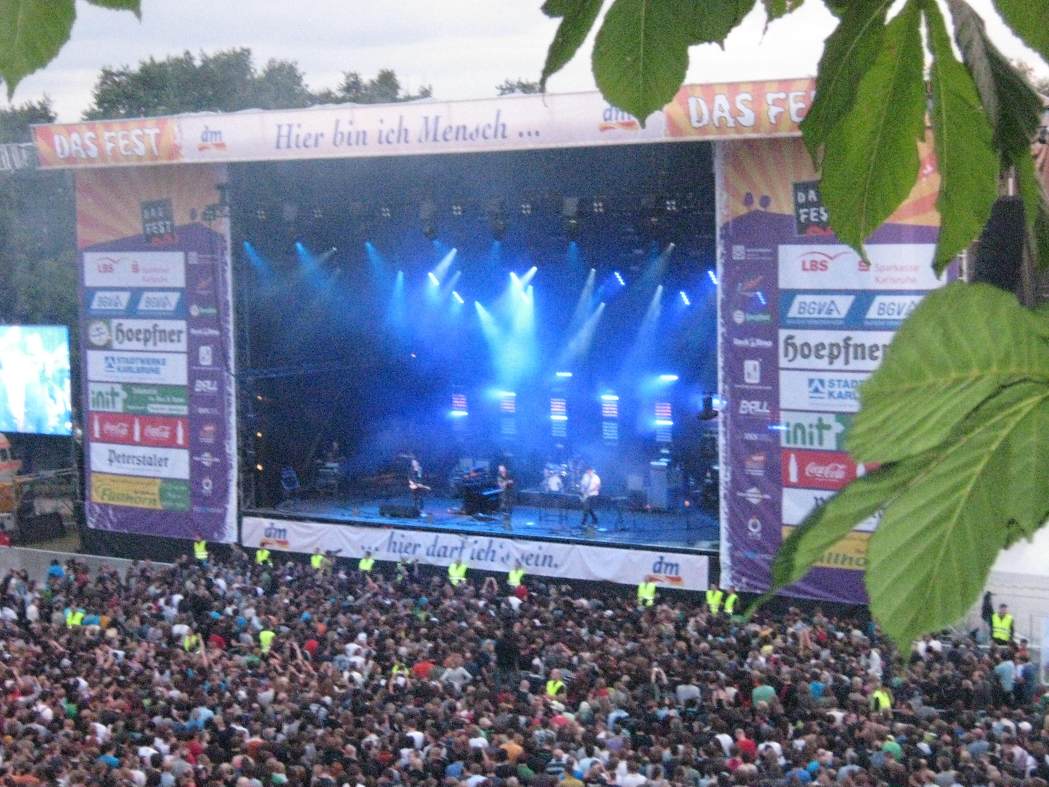 Fest Karlsruhe 2010, Blick von der "Teufelslounge"